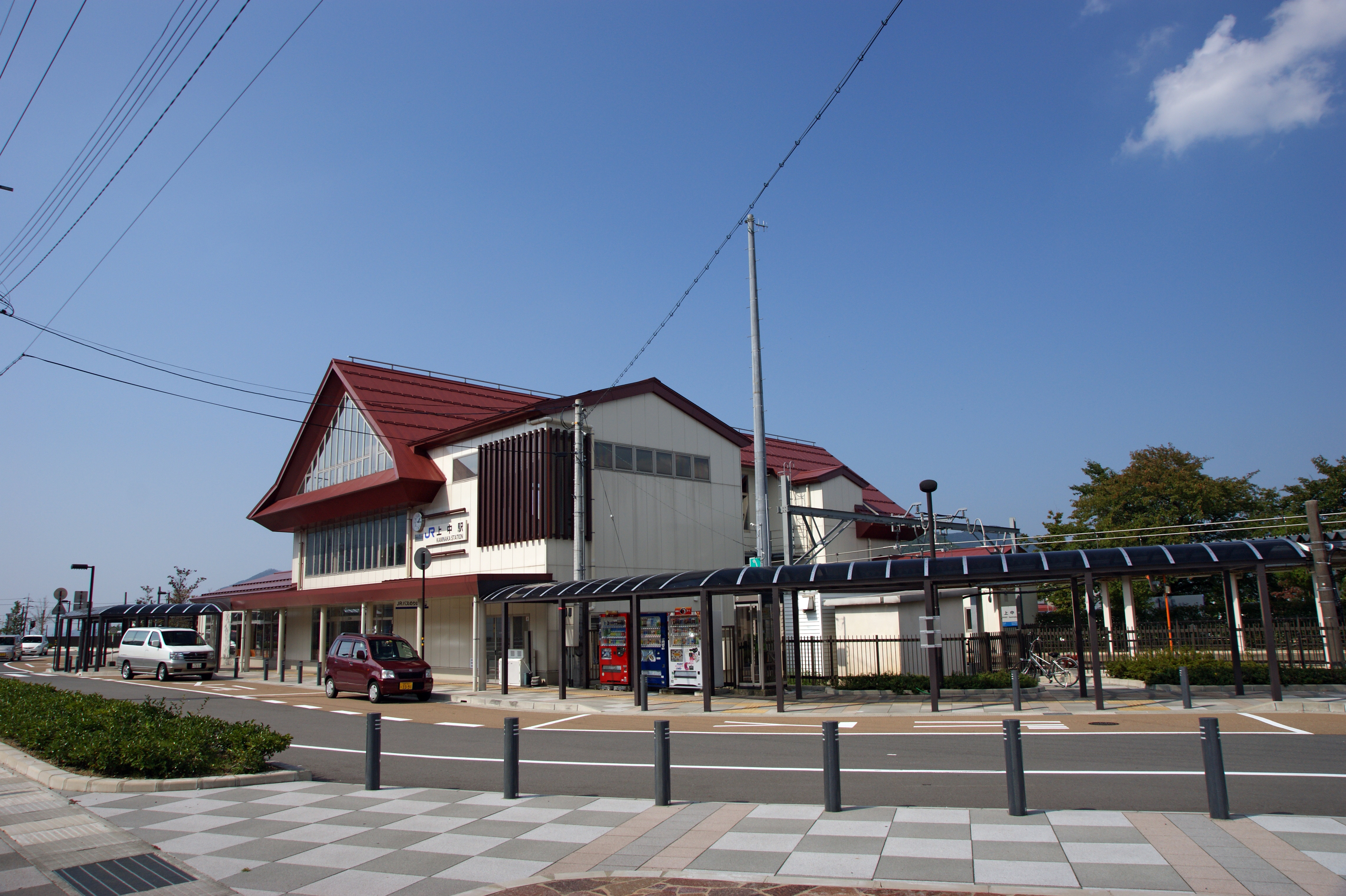 Kaminaka Station, Wakasa, Fukui prefecture, Japan